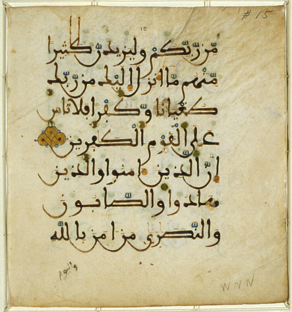 Calligraphic fragment with text executed in maghribi script. It includes verses 68-69 of the 5th chapter of the Qur'an entitled al-Ma'idah (The Table).